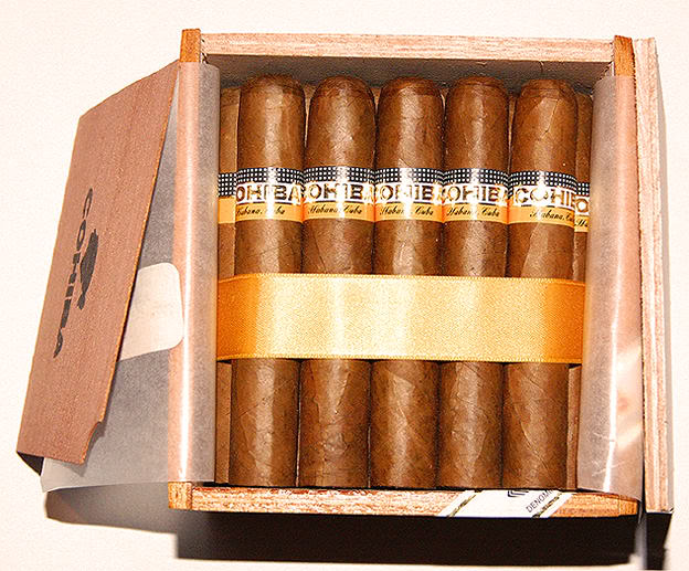 Box of Cohiba Robustos